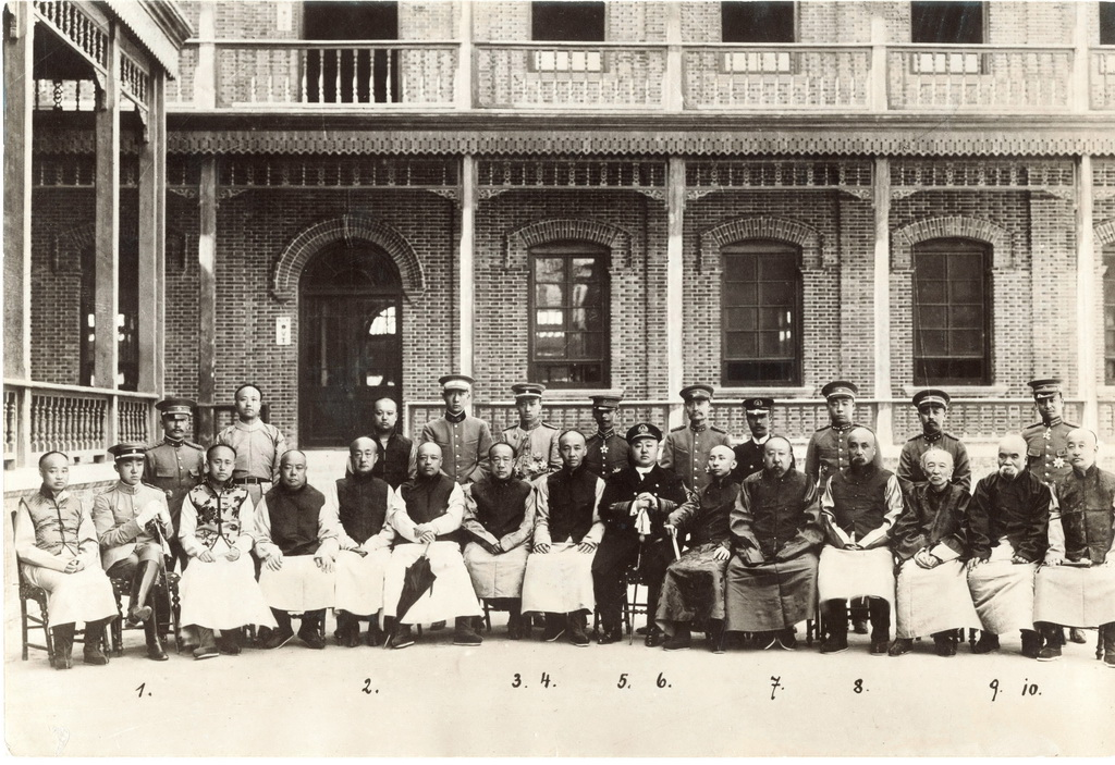 The princes of the Manchu dynasty in 1911. In the Manchu tradition one name is often used. From left, Tsai Tao, Ah, Su, Tsai Fu, Gen. Yin Tchang, Tsai Hsuen, Na Tung, Hsue, the president Tsao and Chia-Lai.